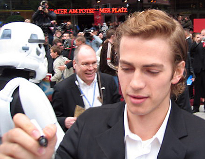 Hayden Christensen during the premiere of Star Wars Episode III in May 2005 in Berlin.